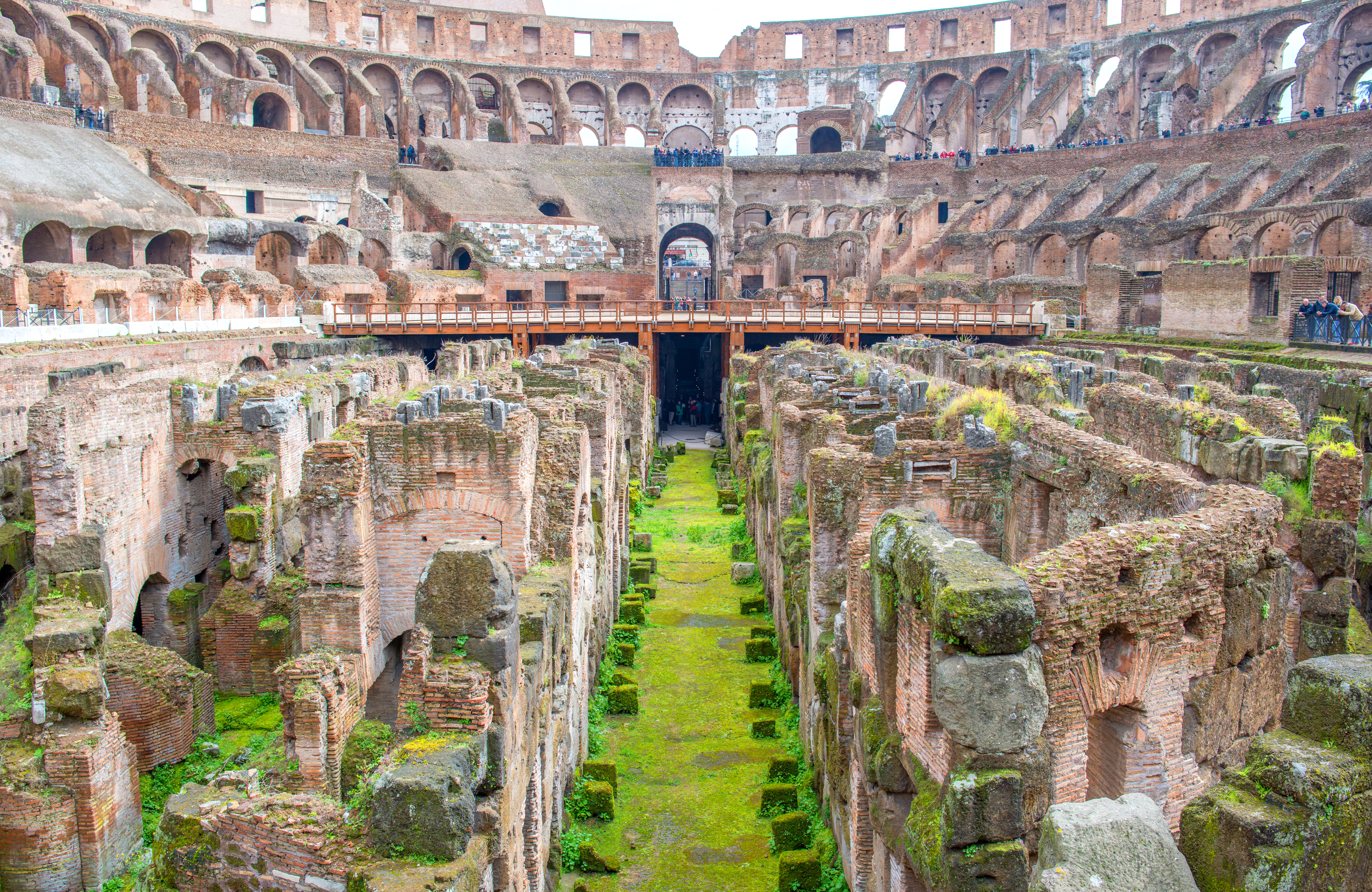 Colosseum Rome Italy February 2013